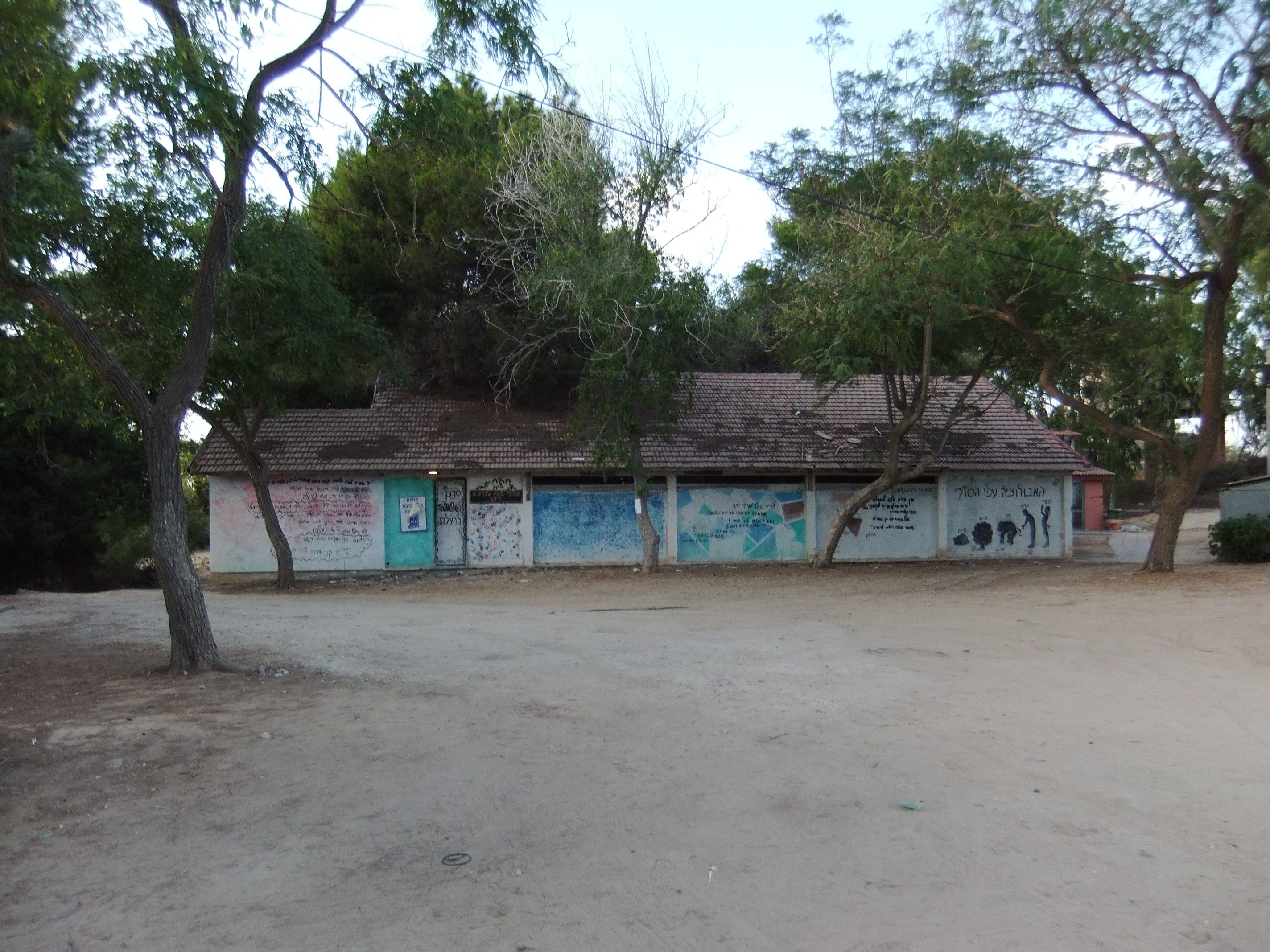 Bnei Akiva in Nitzan